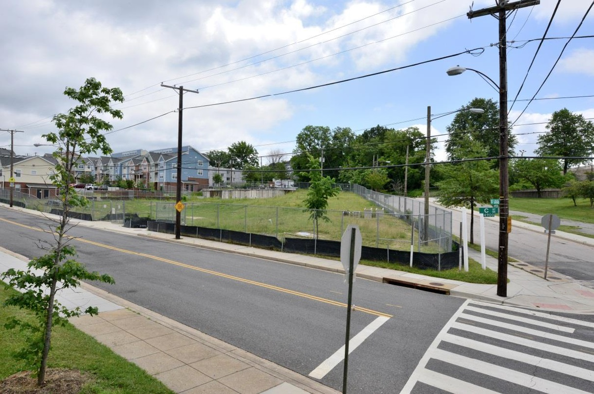 A vacant lot at C Street SE and St. Louis Place SE in the Marshall Heights neighborhood of Washington, D.C., in 2014. The Woodson Heights low-income townhouse development can be see in the rear.